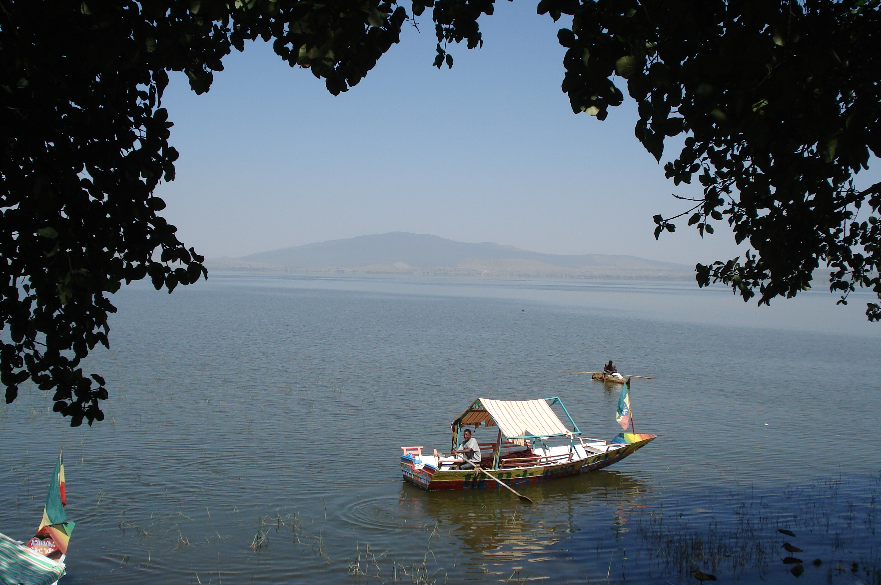 January 6, 2010. Awasa, Ethiopia. Tour boat (foreground) and one-person fishing boat (background) on Lake Awasa